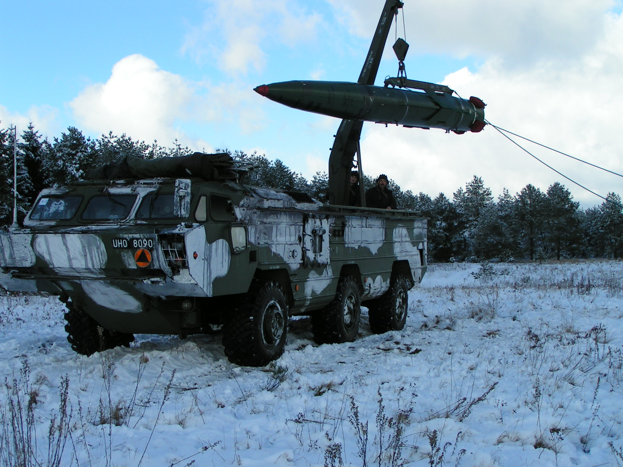 10-12.02.2004 - fire training and its live practice in winter in Poland within Drawsko Training Area. Winter camouflage visible. Technical and fire batteries working - racket loading on launcher.